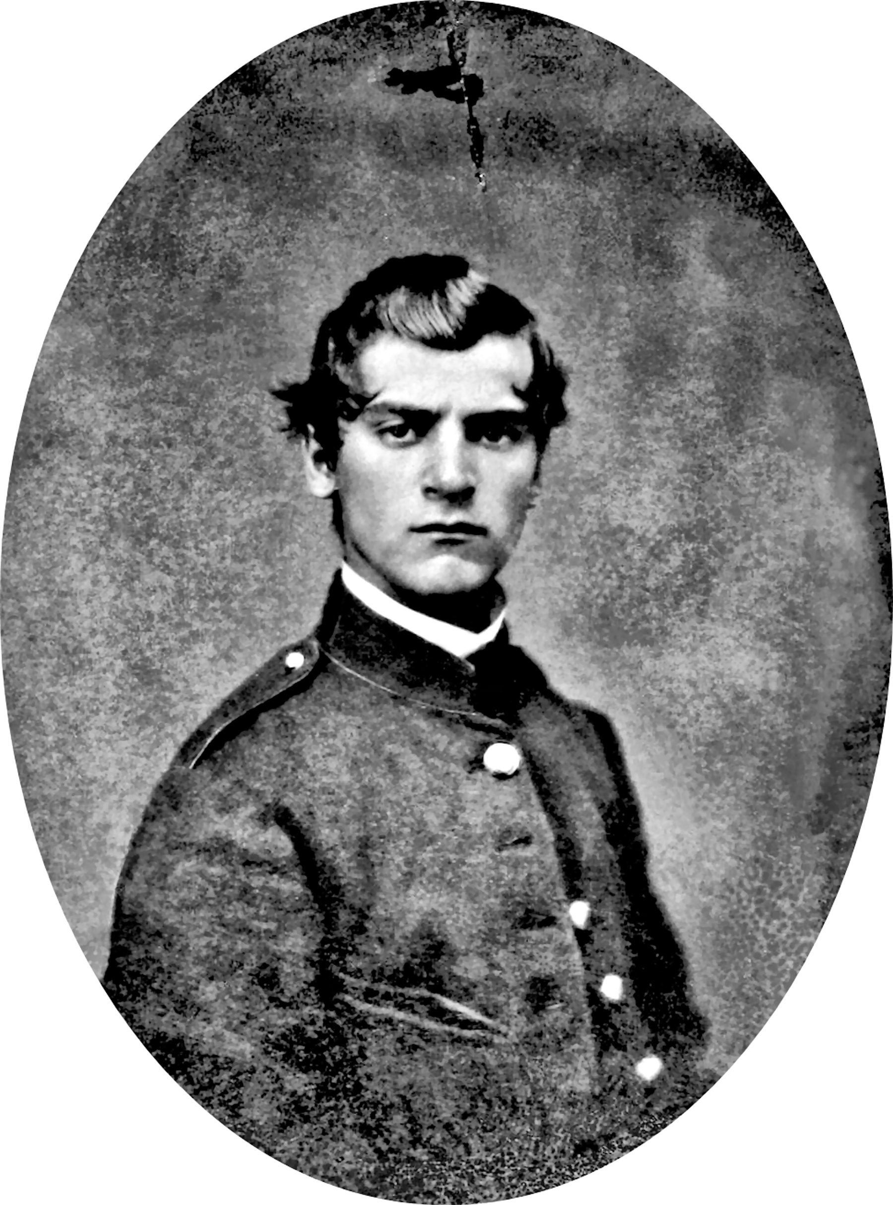 Medal of Honor winner William Henry Freeman c1865